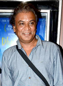 Menon and Sharma at the special screening of 'Dhanak'